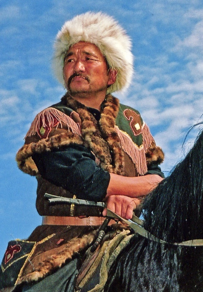 Altaian horseman in national costume.